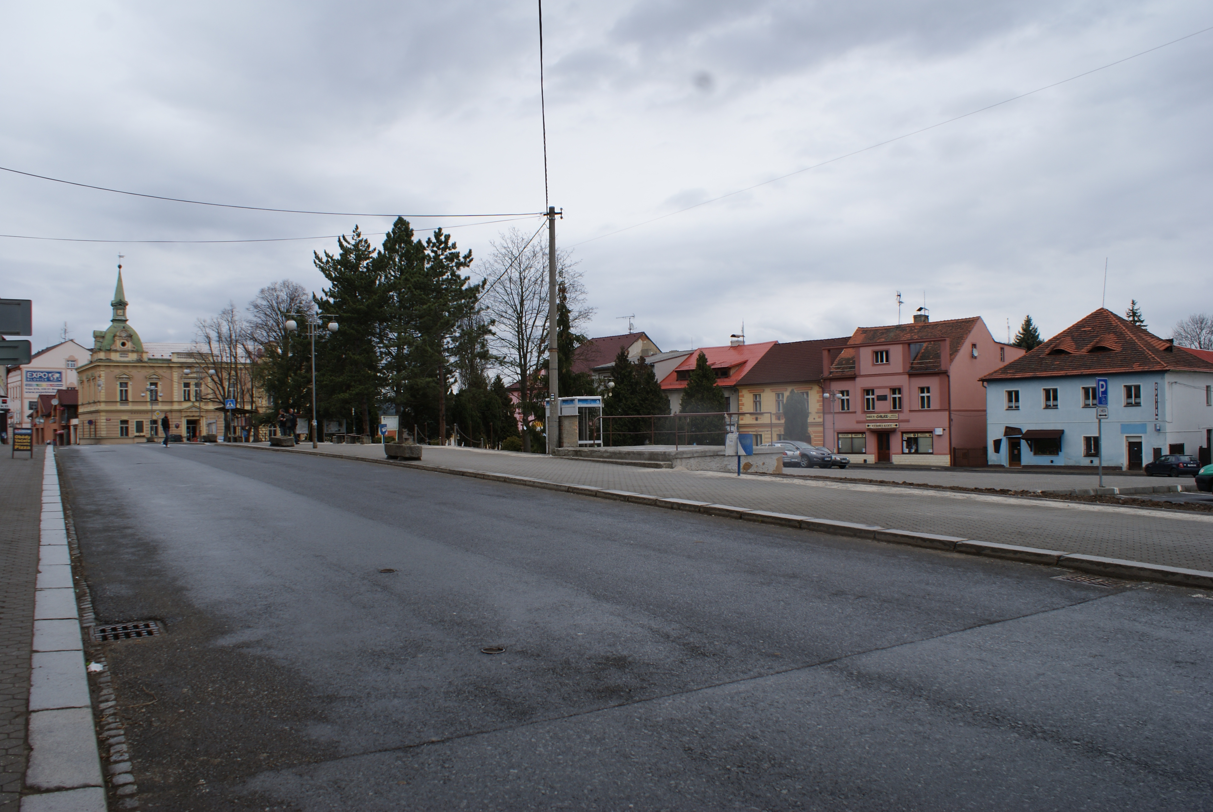 Blovice, a town in Plzeň-jih district, Czech Republic. The city square.